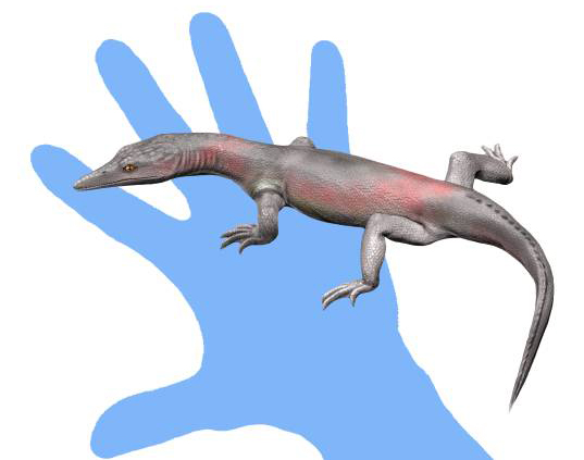 Life reconstruction of Lazarussuchus inexpectatus